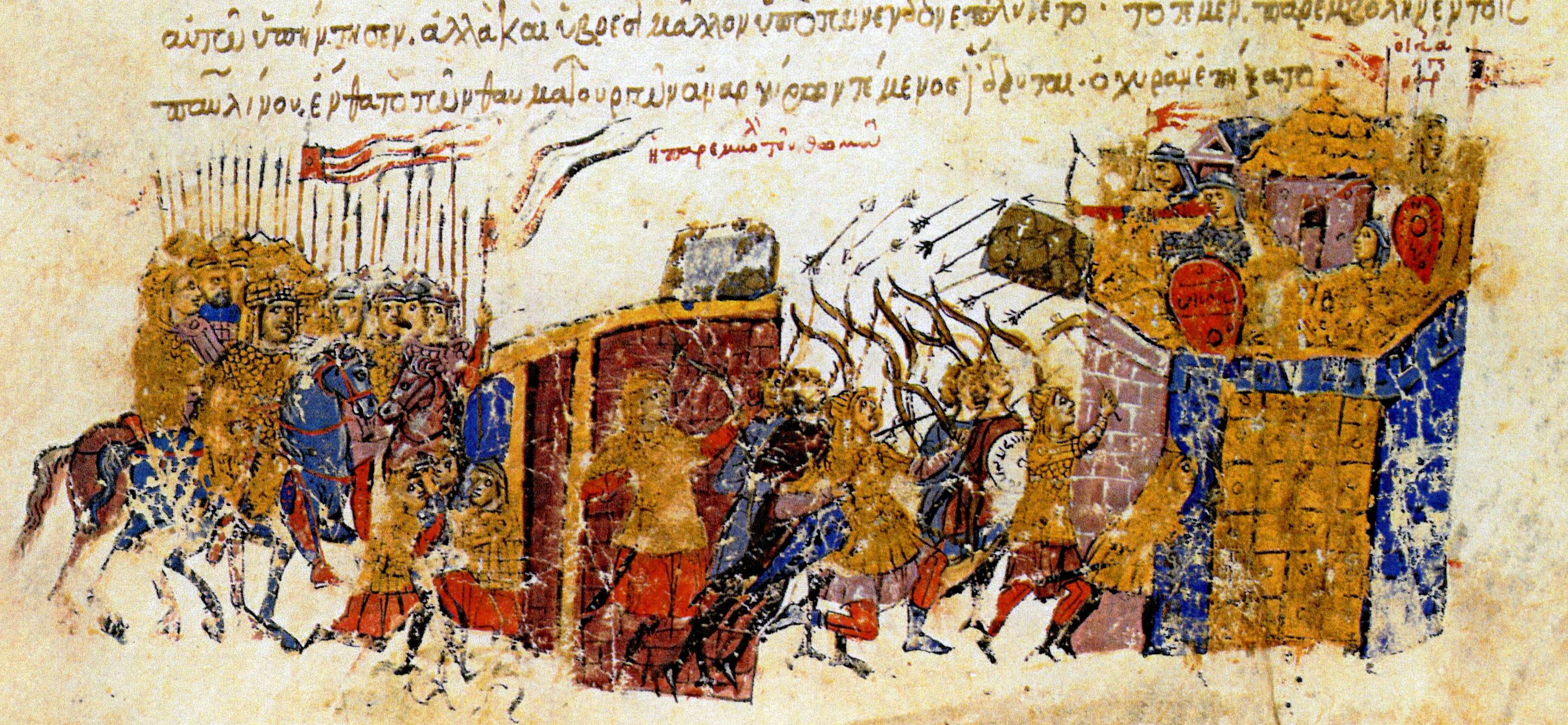 Thomas the Slav and his army assails Constantinople in spring 822